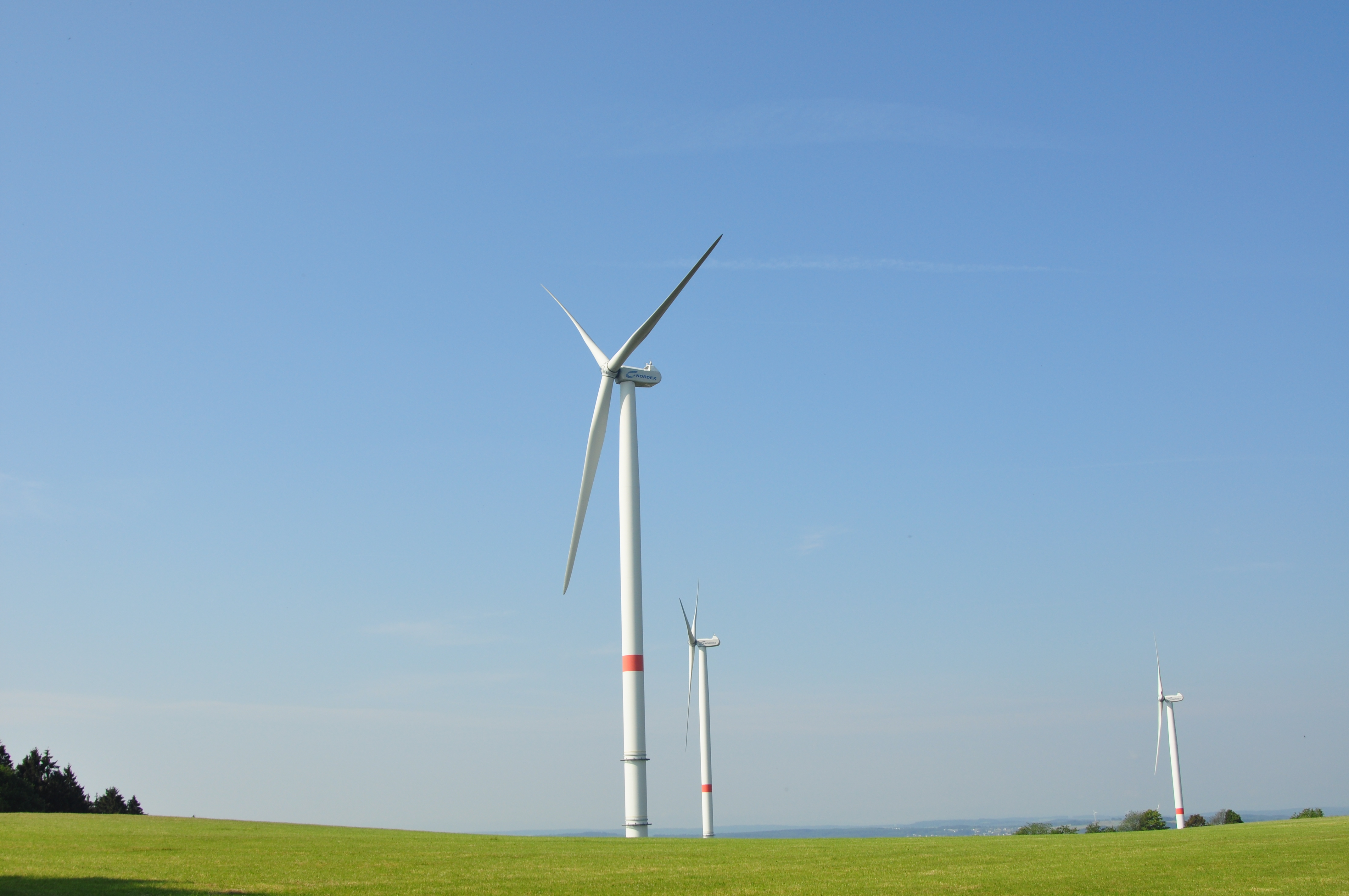 Three of the seven Nordex N90/2300kW wind turbines in Gebhardshain, in the foreground (off) Windturbine 1, on the right side of it Turbine 2 and in the right side of the image Turbine 8. Before the N90s has been built, the wind farm only consisted of two Enercon E66 wind turbines. In 2011 the wind farm grew up at two more Wind turbines of the type Enercon E53.